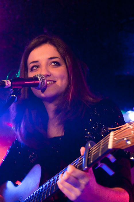 Pearl King Tuts Glasgow.